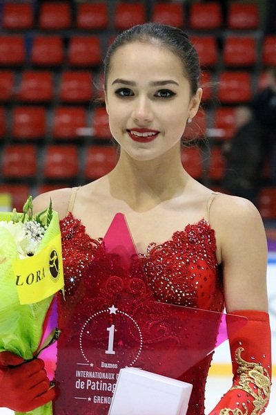 Alina Zagitova at the Trophée de France 2017 - Awarding ceremony